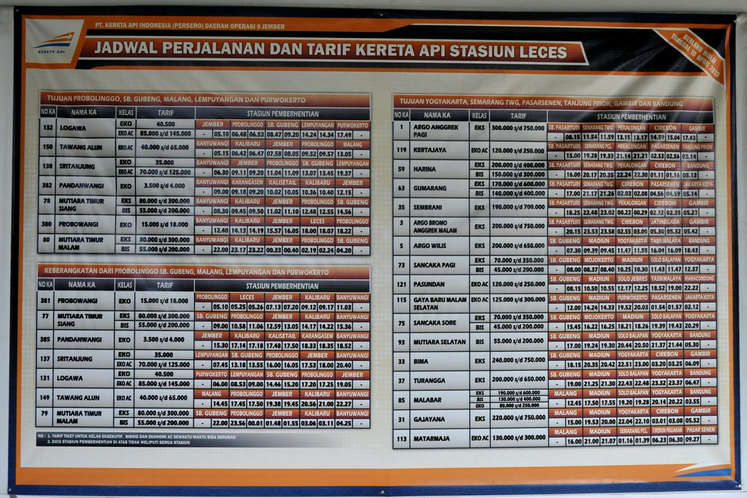 Leces train station in Probolinggo Regency, East Java, Indonesia. Timetable.